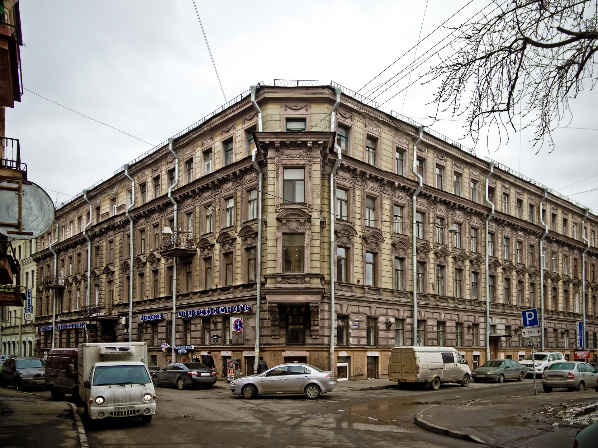 Saint Petersburg, 17, Blokhina street